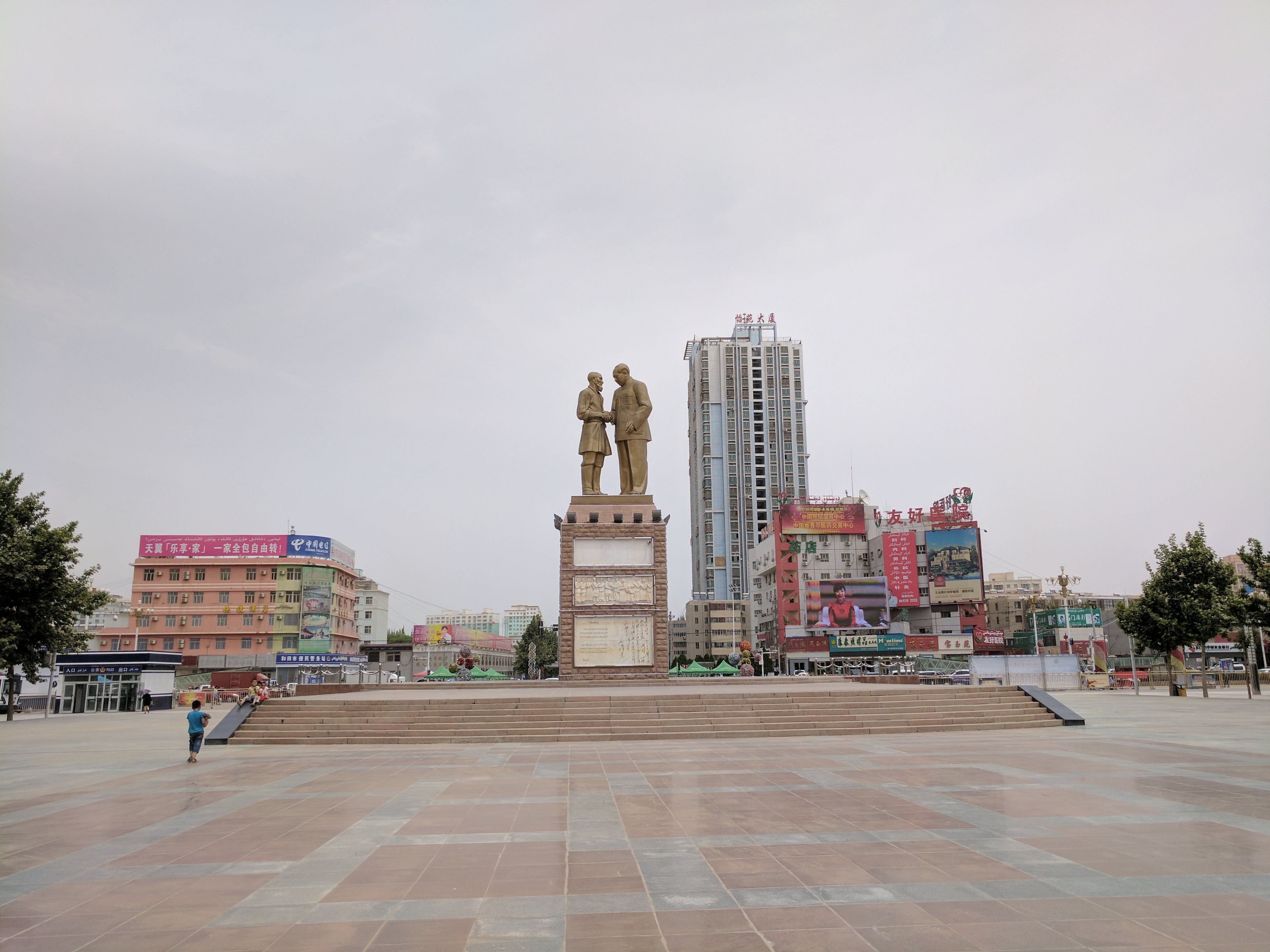 Hotan Tuanjie Square Day facing north, center is Statue of Mao Zedong and Kurban Tulum